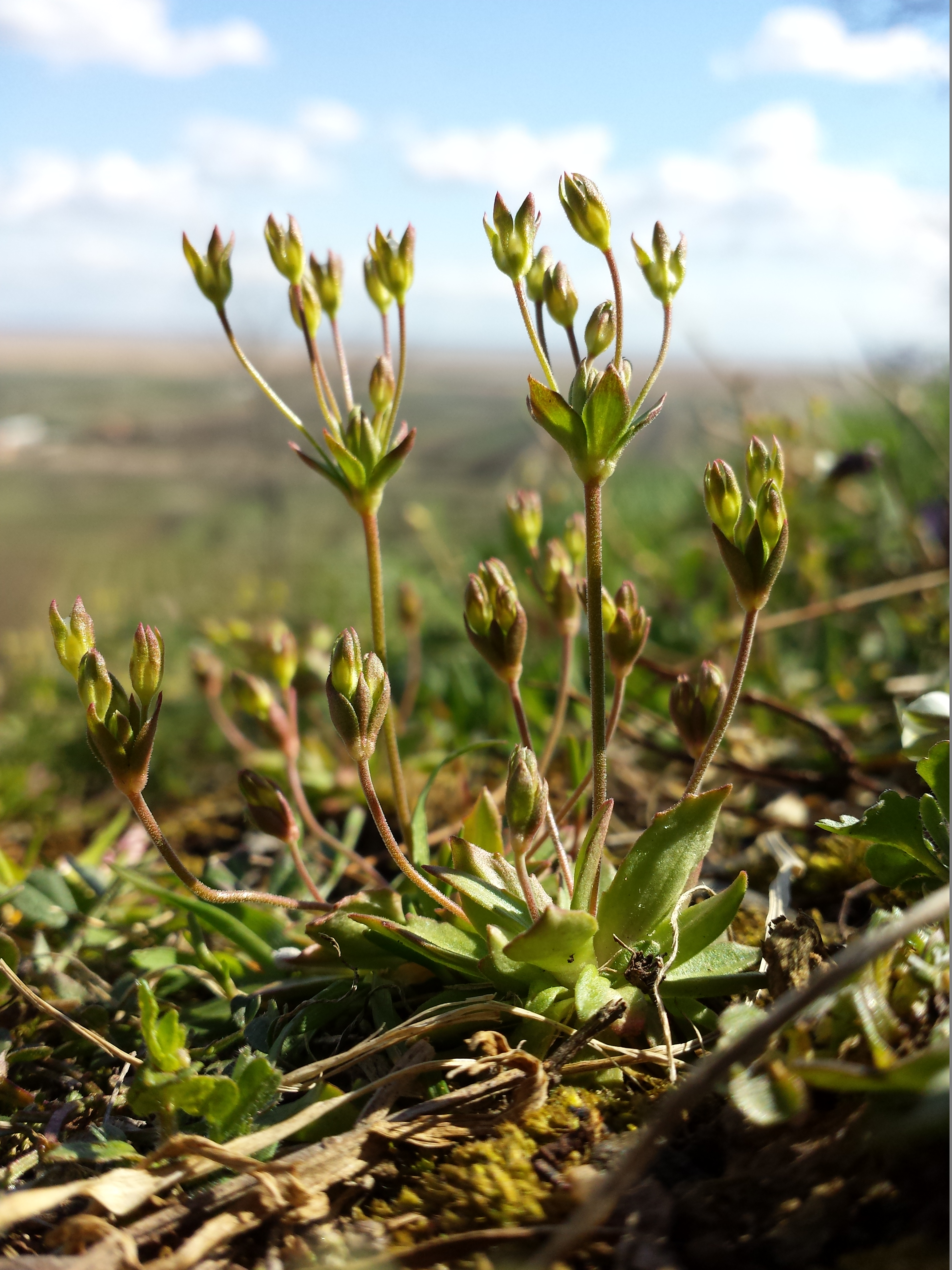 Habitus Taxonym: Androsace elongata ss Fischer et al. EfÖLS 2008 ISBN 978-3-85474-187-9 Location: Jungerberg, Jois, district Neusiedl am See, Burgenland, Austria - ca. 200 m a.s.l. Habitat: forest of Robinia pseudacacia